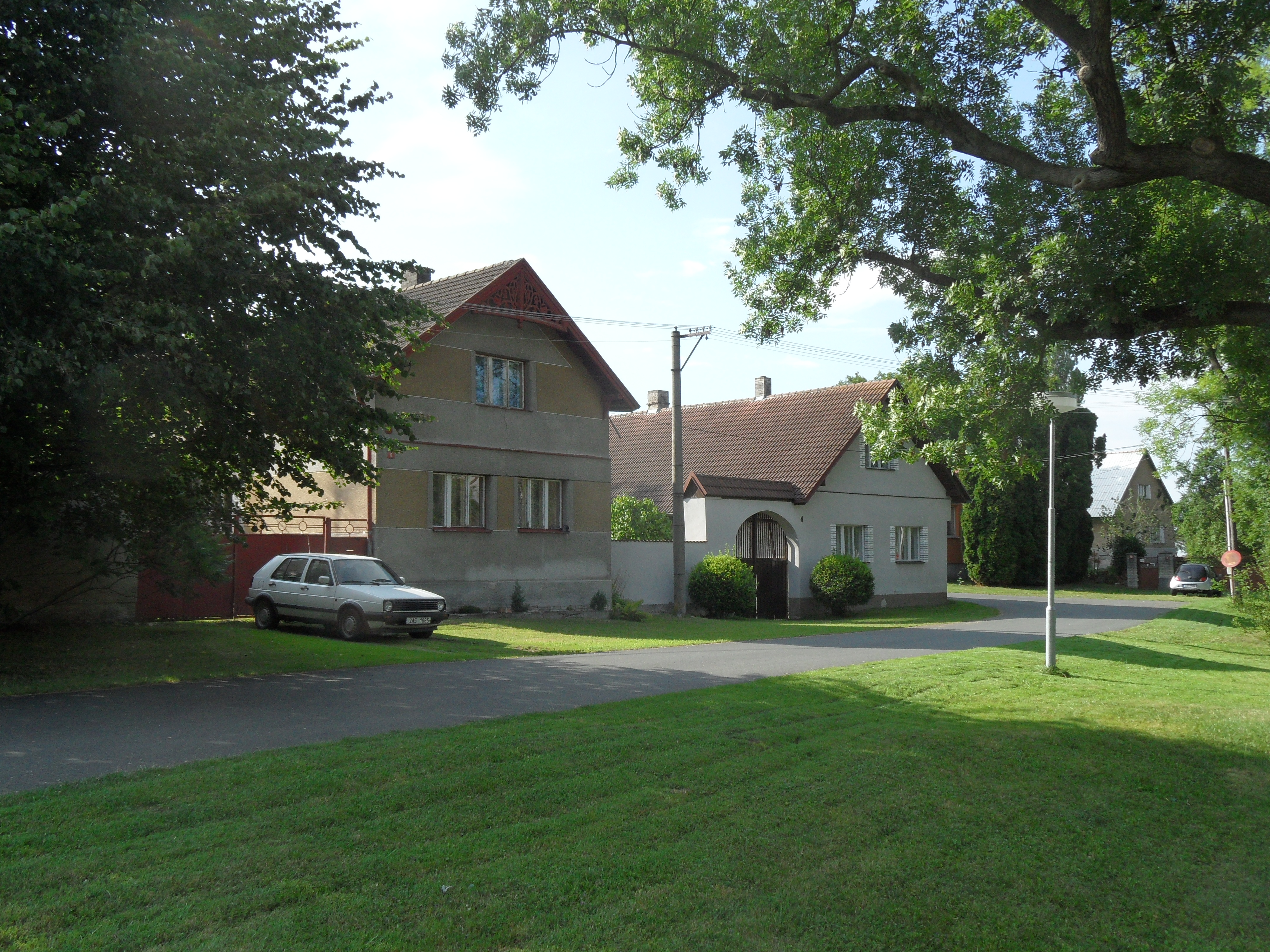 Nepoměřice B. Houses close to Village Square, Kutná Hora District, the Czech Republic.